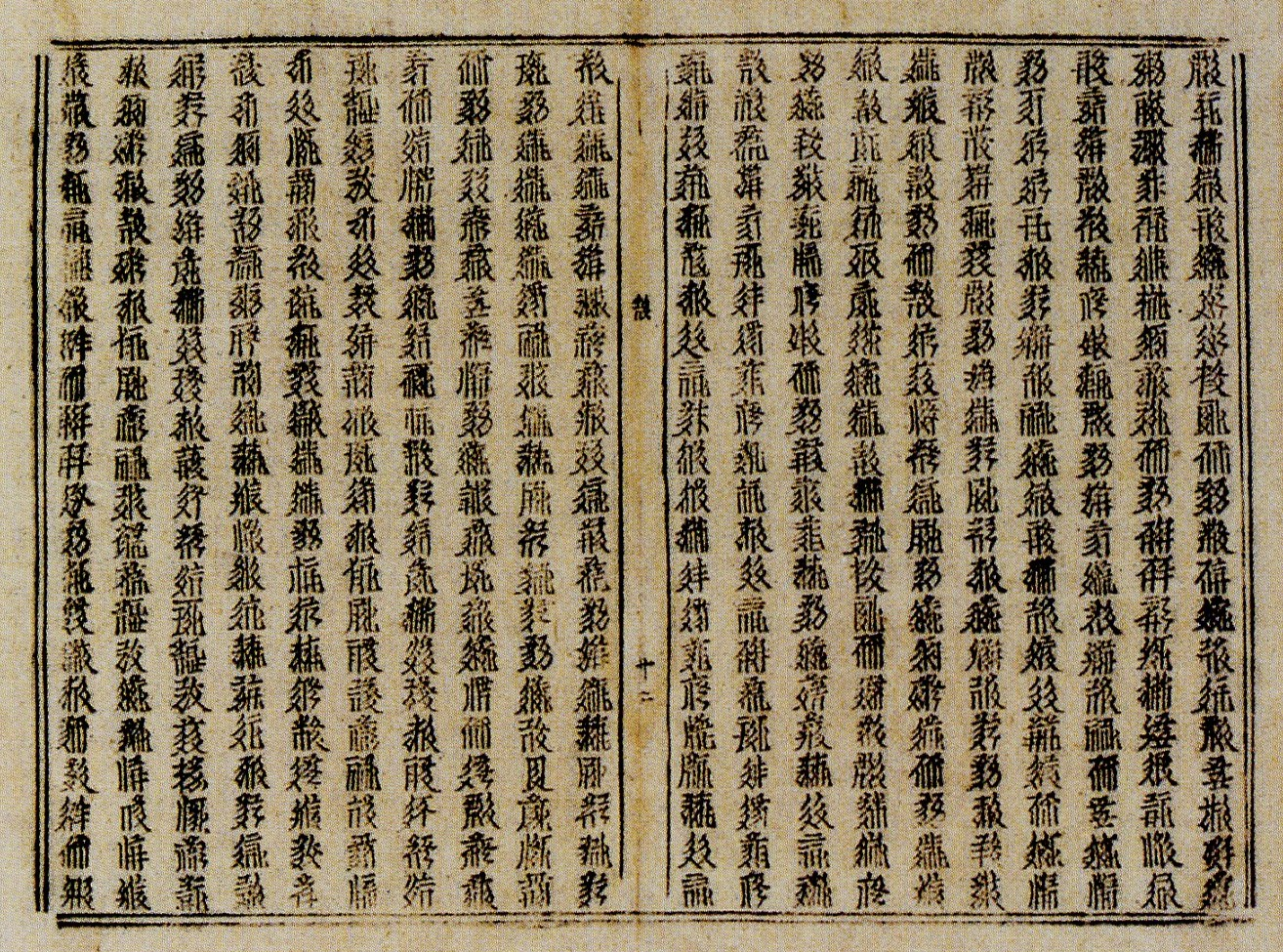 Auspicious Tantra of All-Reaching Union: Supplementary Explanations volume 3 folio 12. Folio of a 12th century Tangut translation of a Tantra printed using wooden movable type, from the Baisigou Square Pagoda in Ningxia, China.